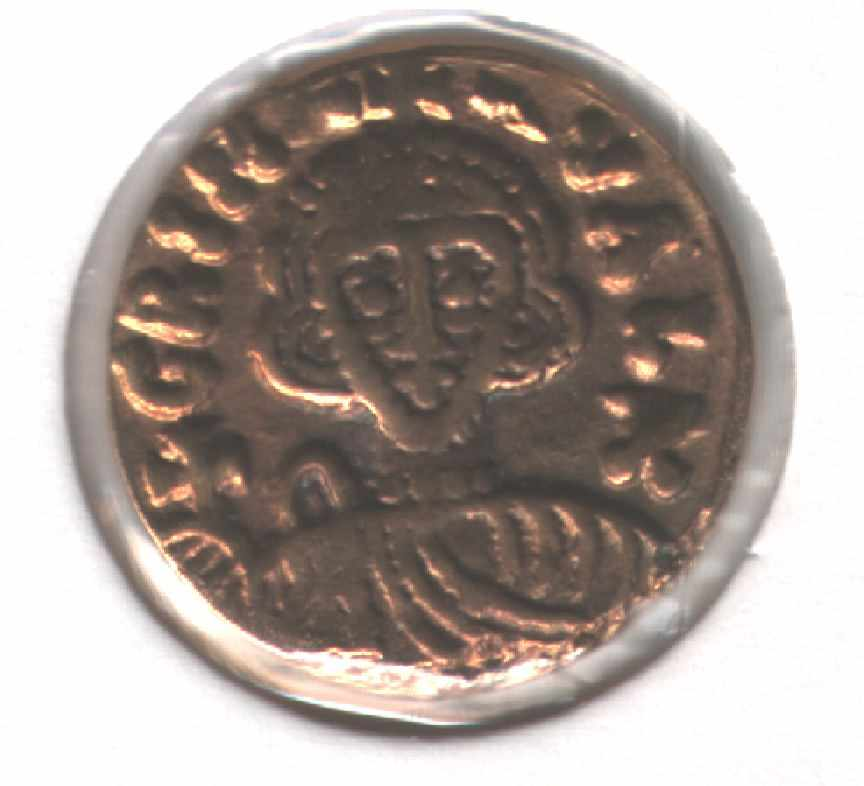 This coin depict the ruler Grimoald III of Benevento. A ruler of Lombardy, Italy.